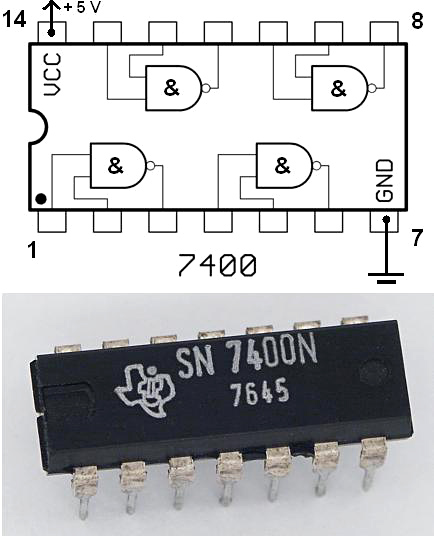 The view and element placement of the popular chip 7400. The chip contains four logical elements AND-NOT (NAND). The two additional contacts supply power (+5 V) and connect the ground. This chip was made in the 45th week of 1976.